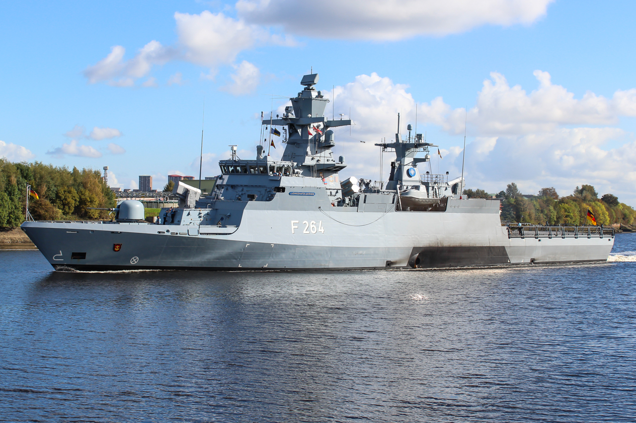 F264 FGS Ludwigshafen am Rhein, German Navy, headed down the River Clyde for the start of the Joint Warrior 16-2 exercise